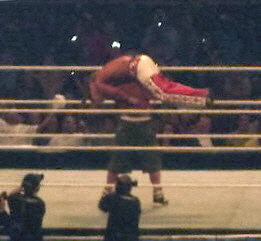 John Cena about to perform his FU (Fireman's carry powerslam) finisher to Shawn Michaels at WrestleMania 23. (Cropped from flickr)